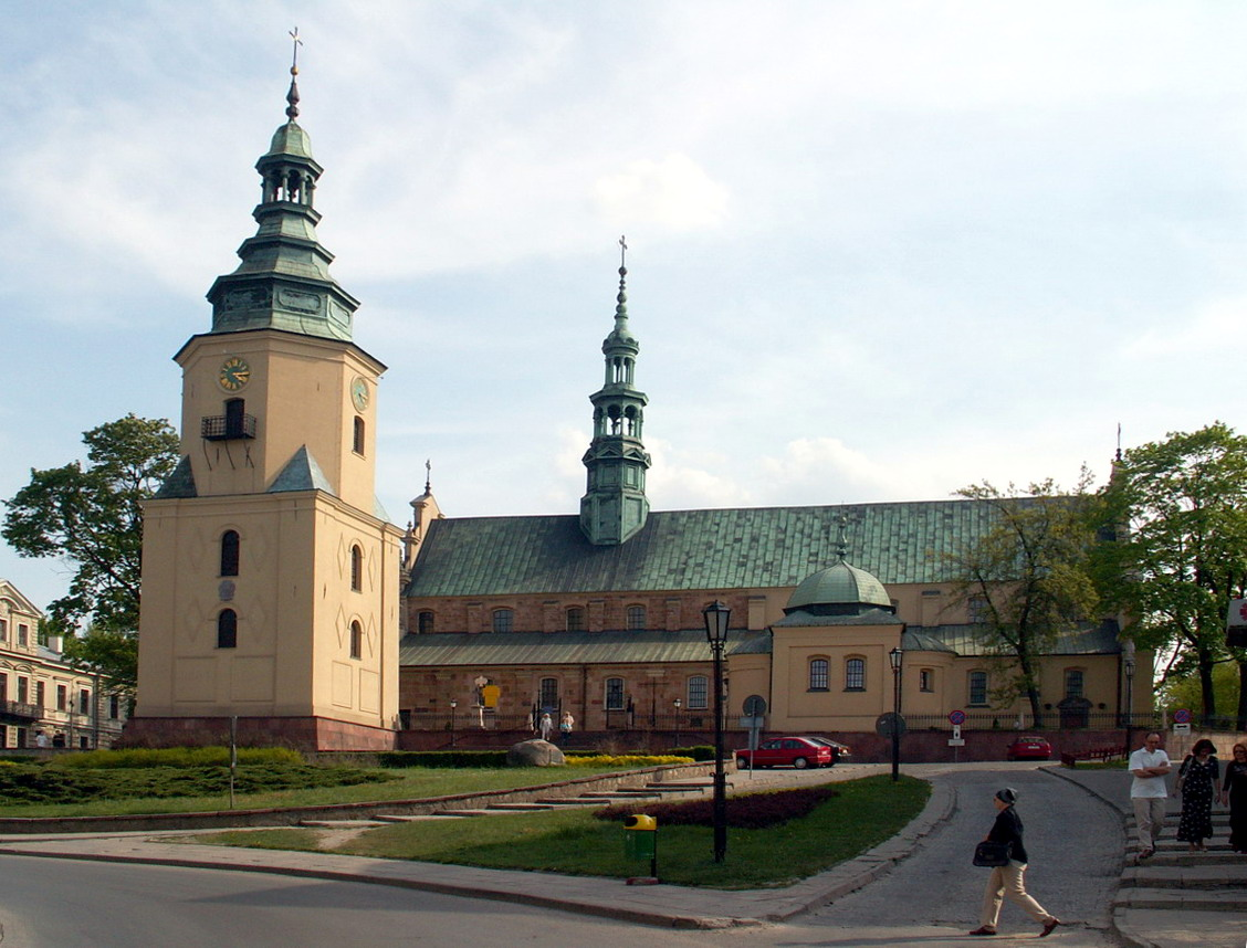 Cathedral in Kielce (Poland)